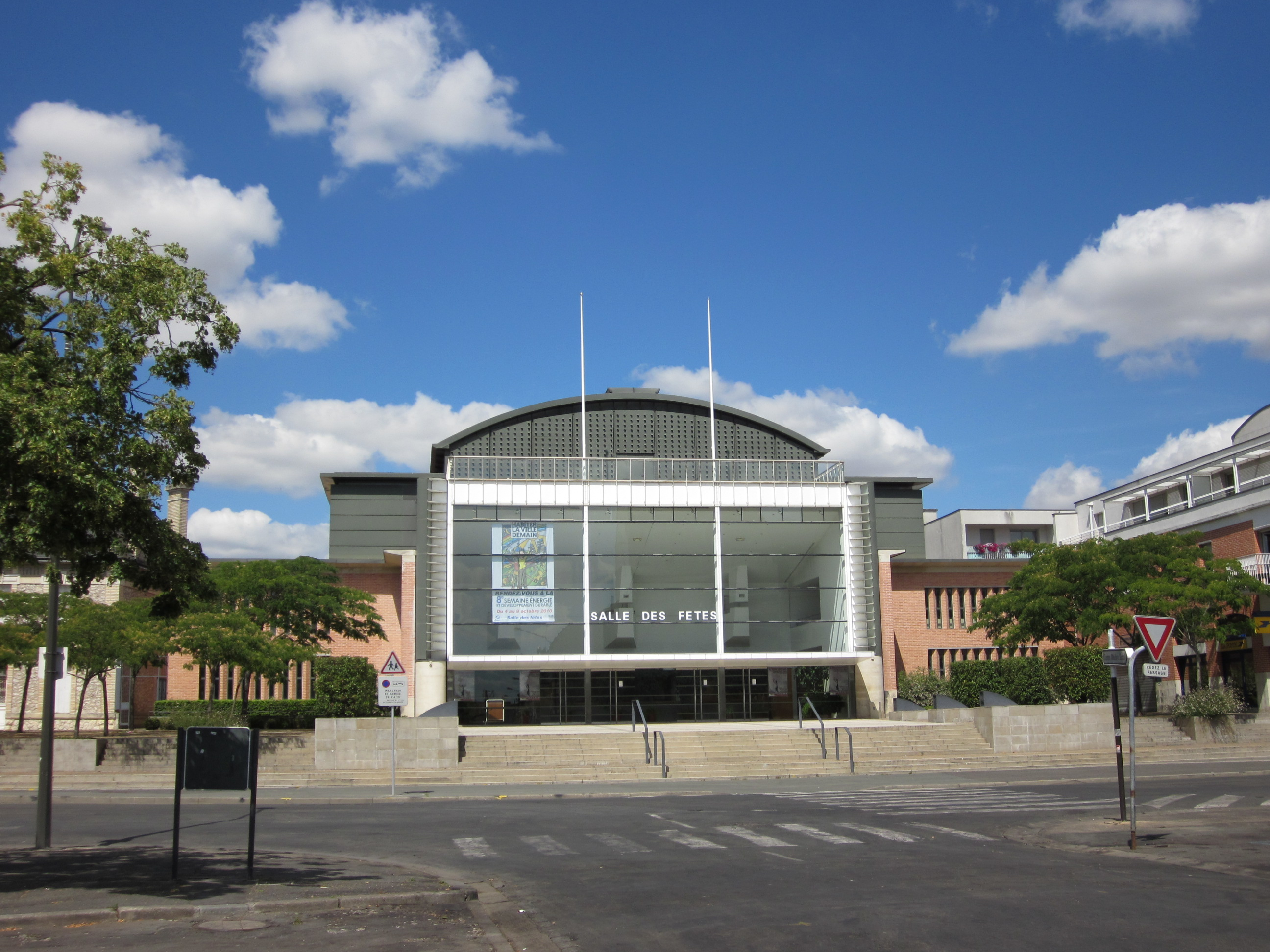 Saint-Pierre-des-Corps' ballroom